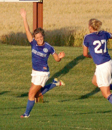 Jennifer Nobis Playing for RCFC